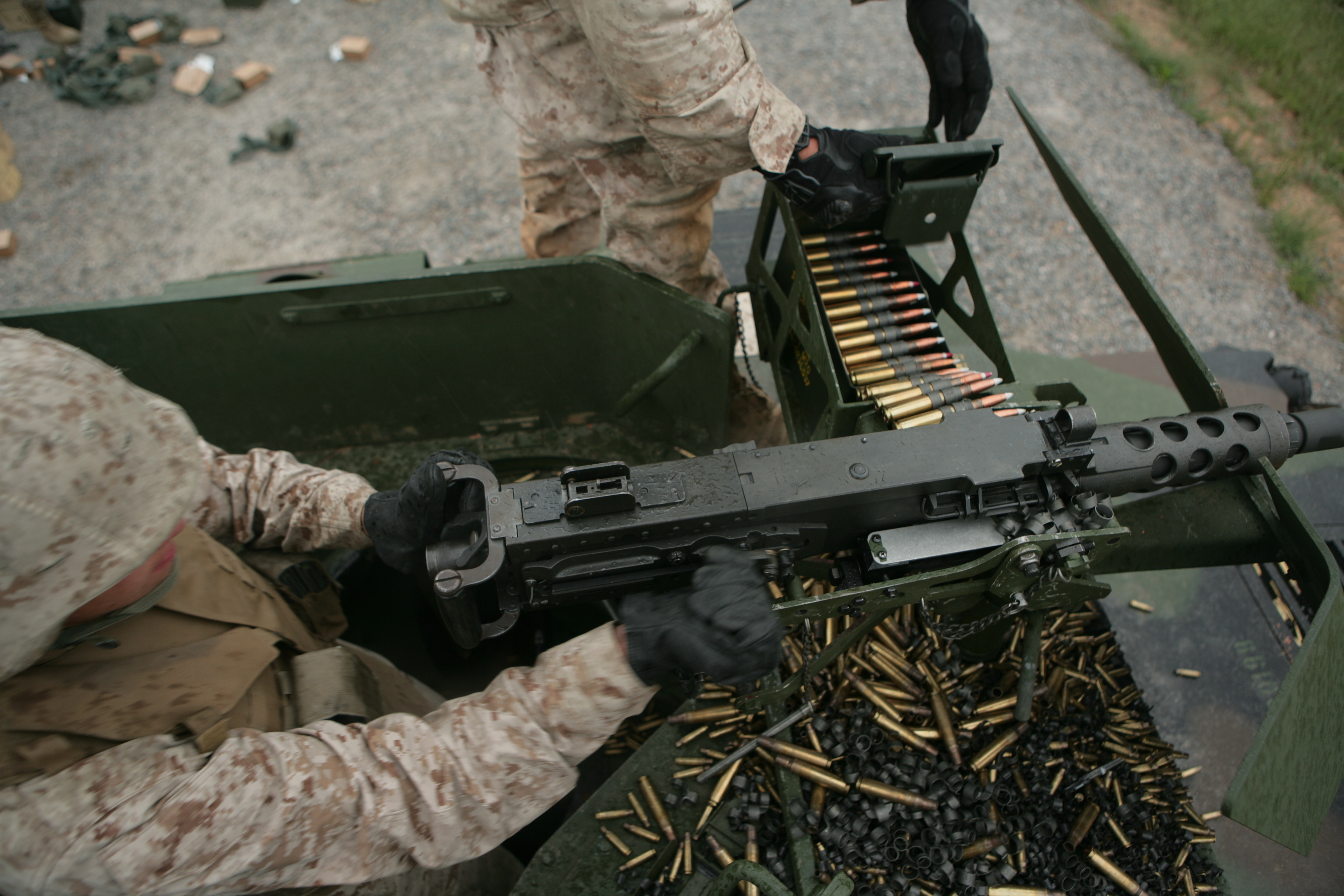 U.S. Marine Corps Lance Cpl. Kyle Dathe with Combat Logistics Battalion 24, Combat Logistics Regiment 27, 2nd Marines Logistics Group pulls the charging handle on a .50-caliber machine gun aboard Fort Pickett, Va., Sept. 17. Dathe was loading the weapon to begin a live fire exercise. More than 900 Marines and sailors will take part in the Deployment for Training exercise at Fort Pickett, Sept. 6-23. The battalion is scheduled to attach to the 24th Marine Expeditionary Unit a few days after the training. (Photo by U.S. Marine Corps Pfc. Cesar N. Contreras)